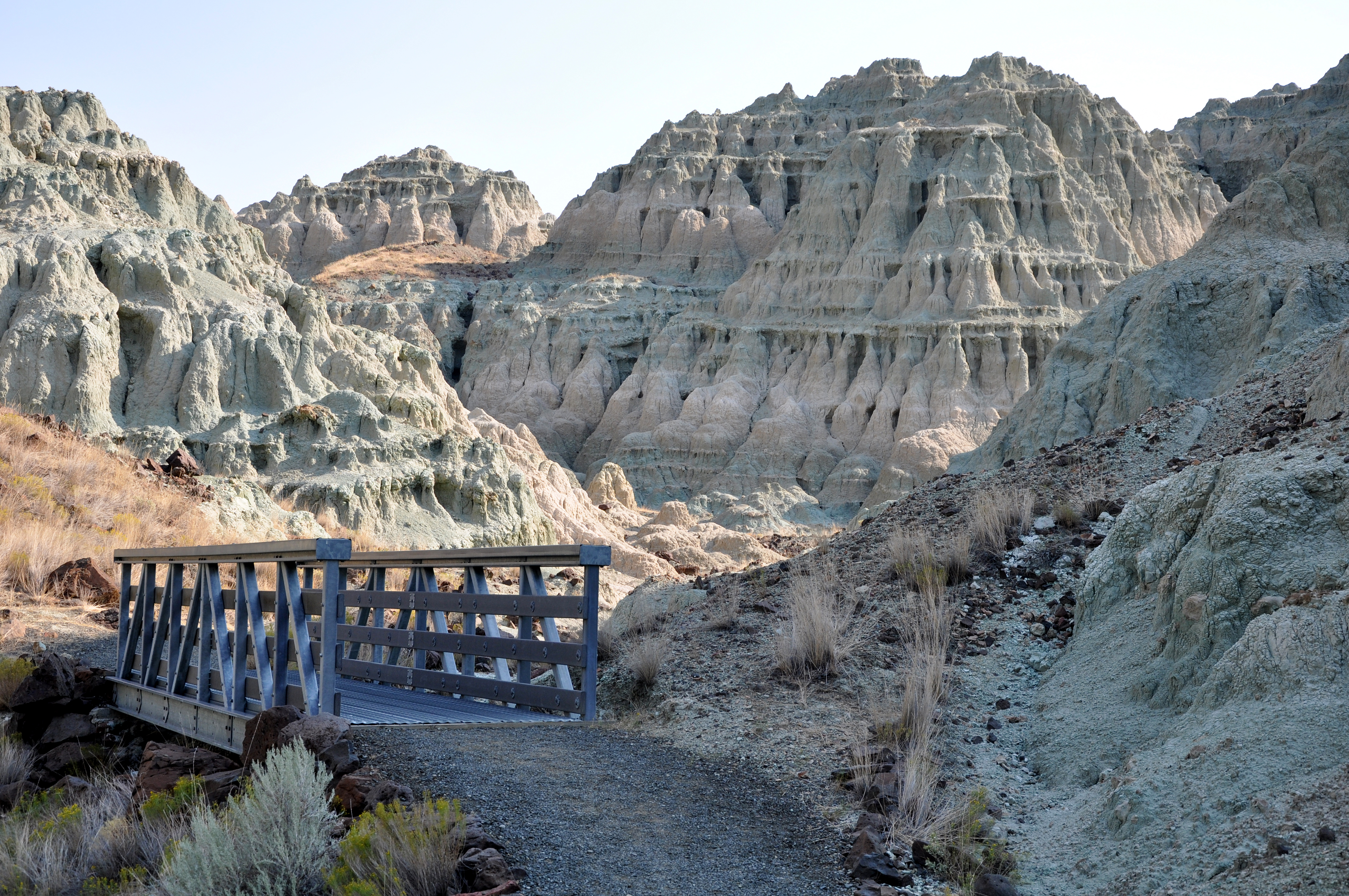 Lower Blue Basin Trail in the Sheep Rock Unit of the John Day Fossil Beds National Monument in the U.S. state of Oregon.